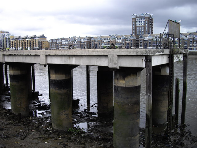 Jetty on the River Thames Built to allow access to the Fulham Power Station Coaling Yard-the site is now a Sainsburys supermarket.